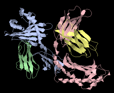 CD1 antigen, artifact asimmetric unit, in evidence: on the high left in violet hidrophobic antigen presenting domain; in green and yellow the α2-microglobulin